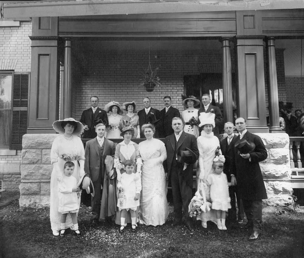 Photograph of members of the Robb and Burrows families at the wedding of Wallace Havelock Robb (1888-1976) and Edna Ilene Burrows (1892-1978) on June 4th, 1913. The house is at 134 Bridge Street, Belleville, Ontario. Back row: Sanford Burrows, Ruby Robb, Catherine Robb, William Robb, Fred Burrows and his wife, Clifford Burrows Front Row: Eva and son, William Havelock Robb, Edna Ilene Robb and Fred's son, Victoria Burrows, Stephen Burrows, Lila and daughter, Bruce Robb, Lila's husband Mr Spalding. Donated by Philippa Faulkner. Source: Community Archives of Belleville and Hastings County (Flickr)